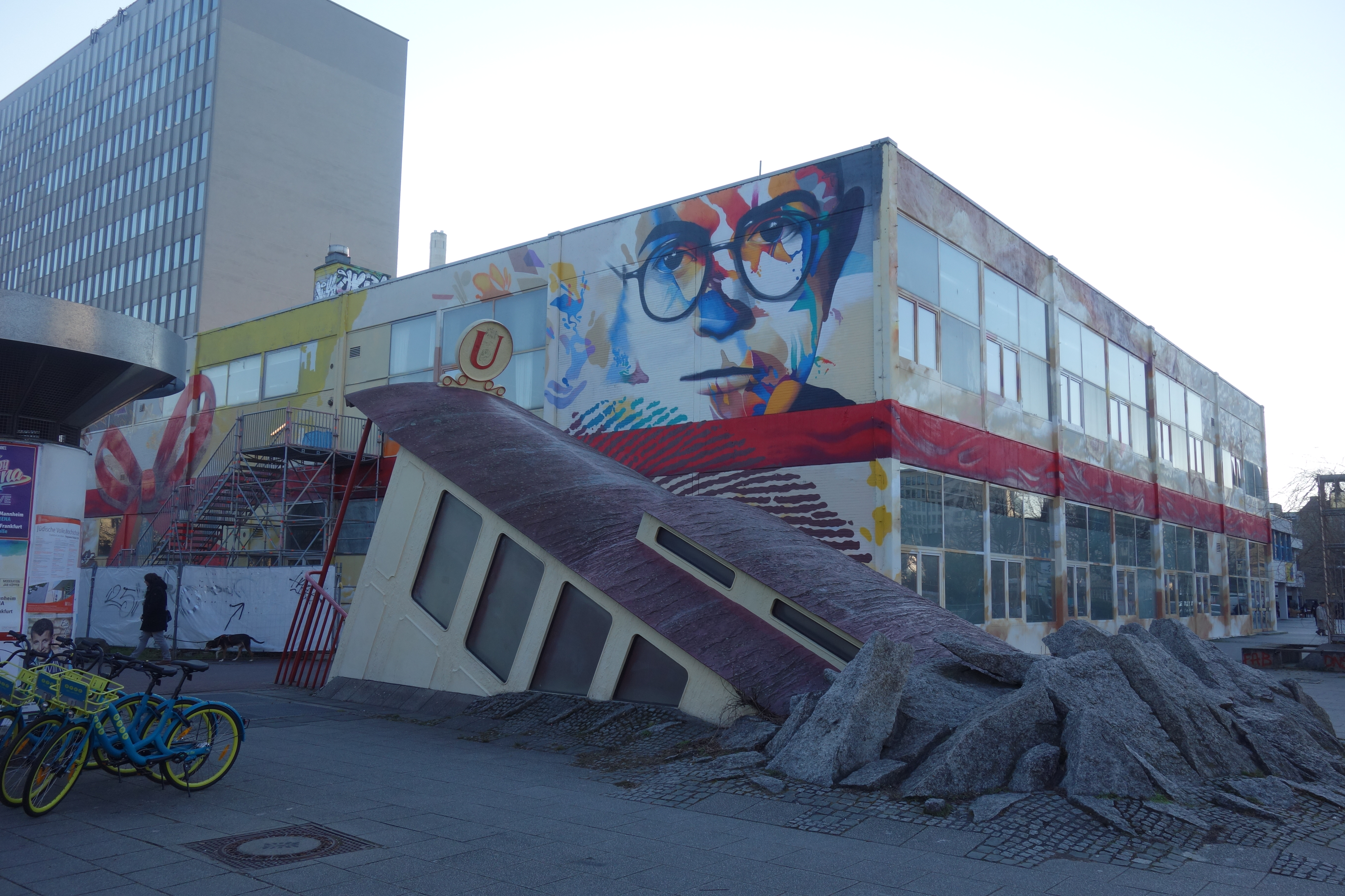 Underground station Bockenheimer Warte, Frankfurt. Design: Peter Pininski. Background: mural by Justus Becker and Oğuz Şen. Depicted: Theodor Adorno.